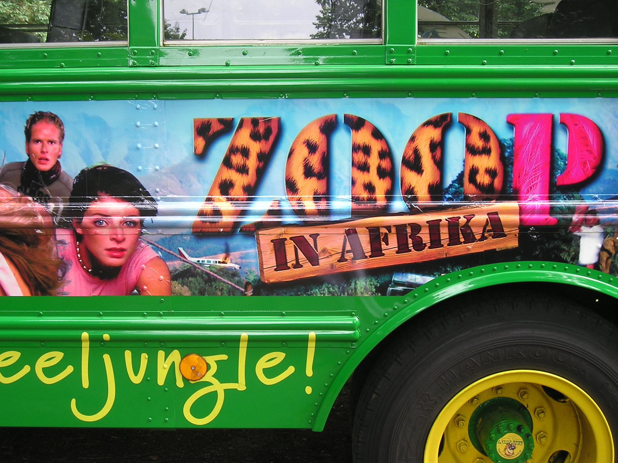 ZOOP in Afrika promotion bus